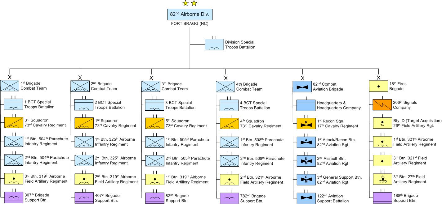 Current Order of Battle for the 82nd Airborne Division